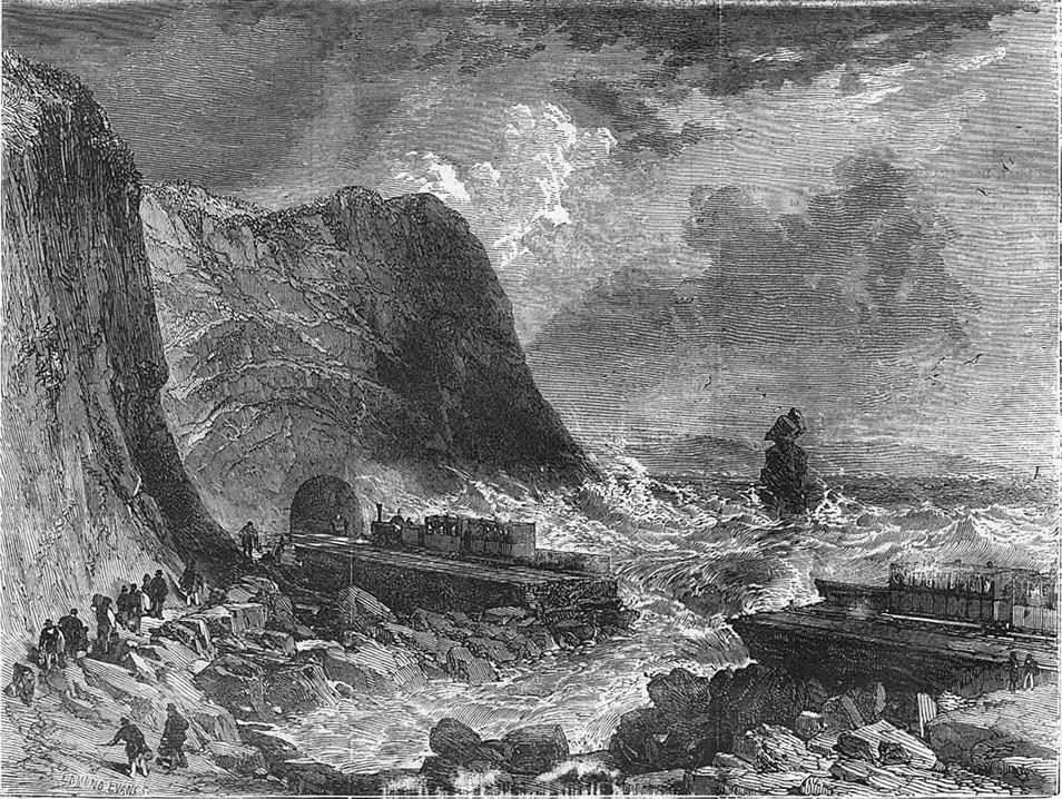 Accident to the South Devon Railway at Dawlish, 1855